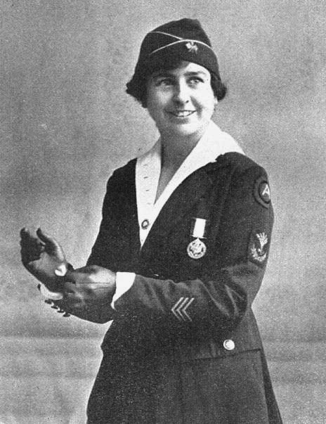 Chief Operator Grace Banker receiving a Distinguished Medal of Service for her role in the US Army Signal Corps in WWI.